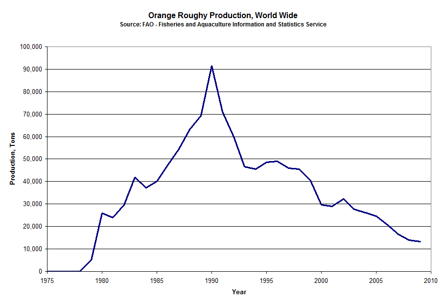 Derived from FAO - Fisheries and Aquaculture Information and Statistics Service - 16/06/2011